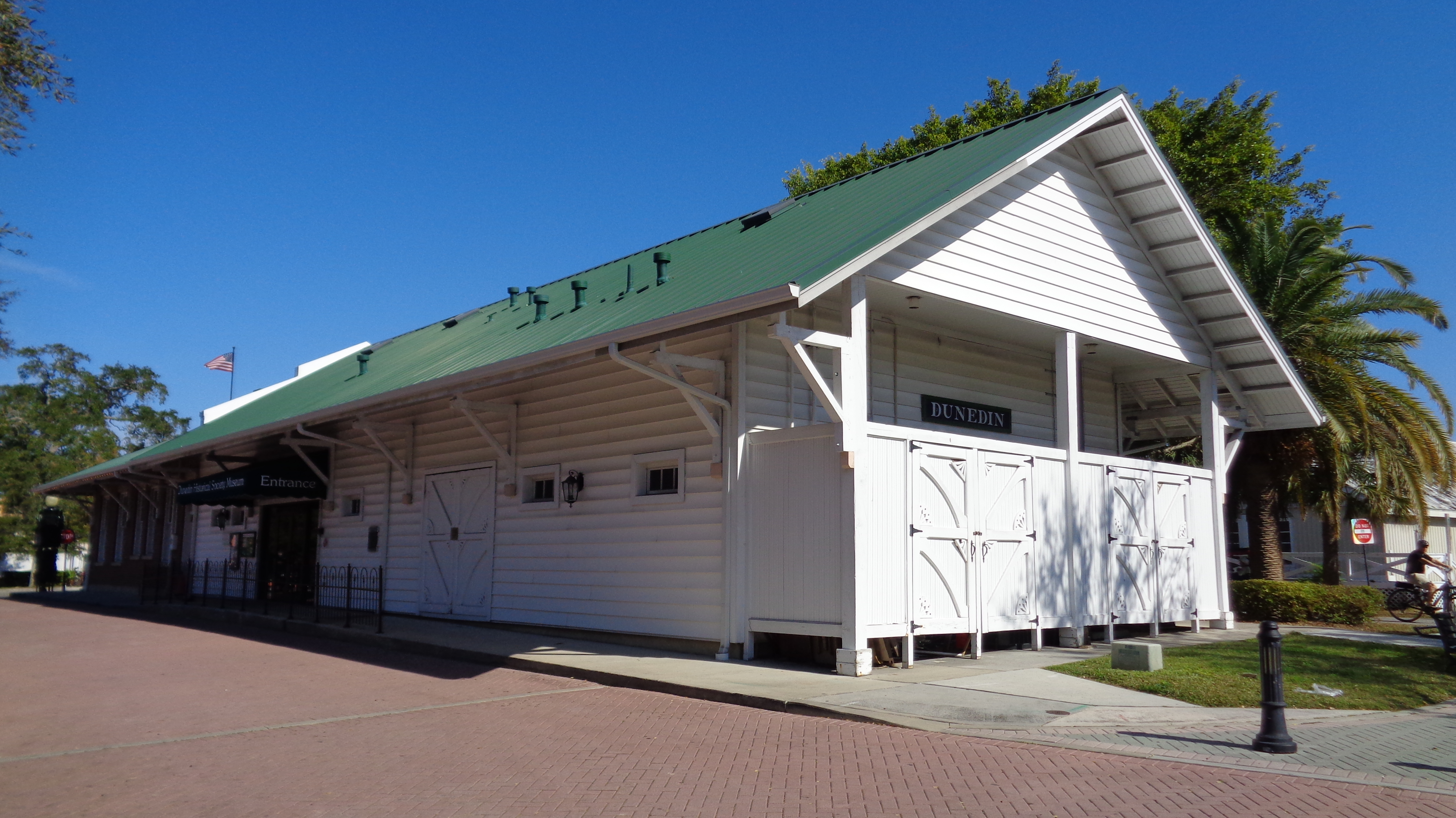 South-facing side of Atlantic Coast Line Railroad depot built in 1924 in Dunedin, Florida.